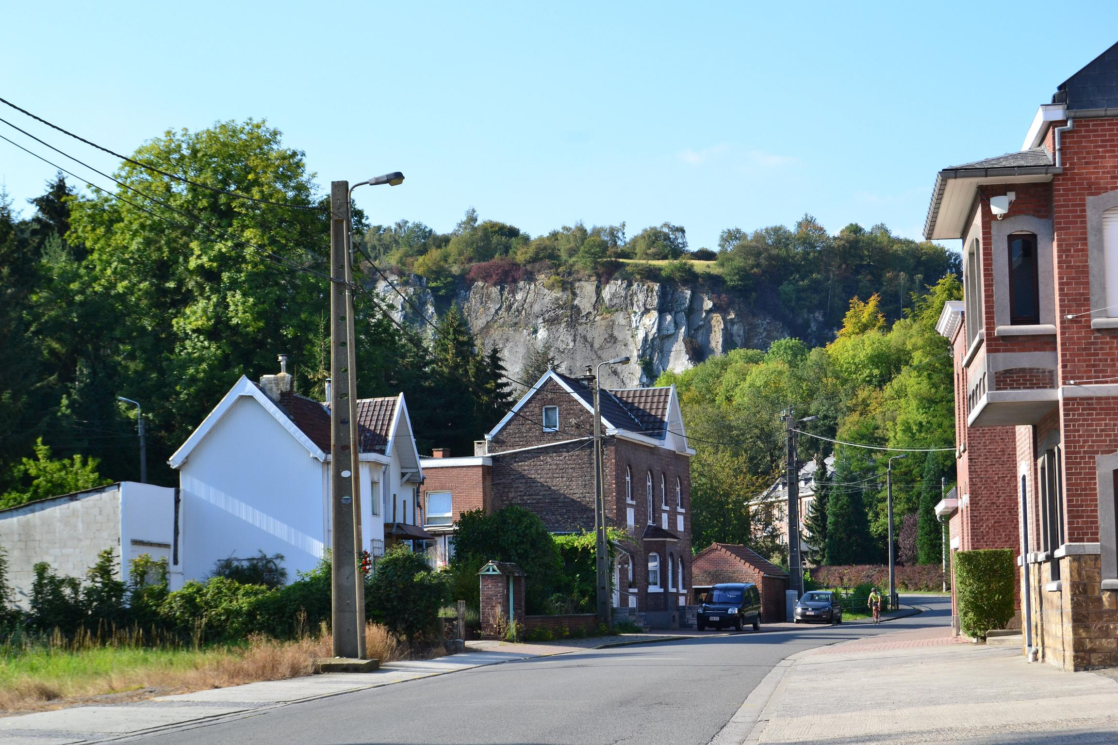 Landscape around the Schmerling Caves, place of the first discovered neandertalian remains by Philippe-Charles Schmerling in 1830 - Awirs, Flémalle / Engis, Liège, Belgium. Above, the 'Plateau de Fagnes', from where Schmerling climbed down to explore the caves. The caves are in a smal valley right to the plateau, unvisible from the road (this view)